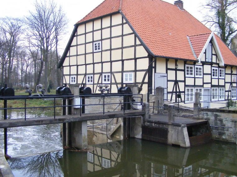 mill